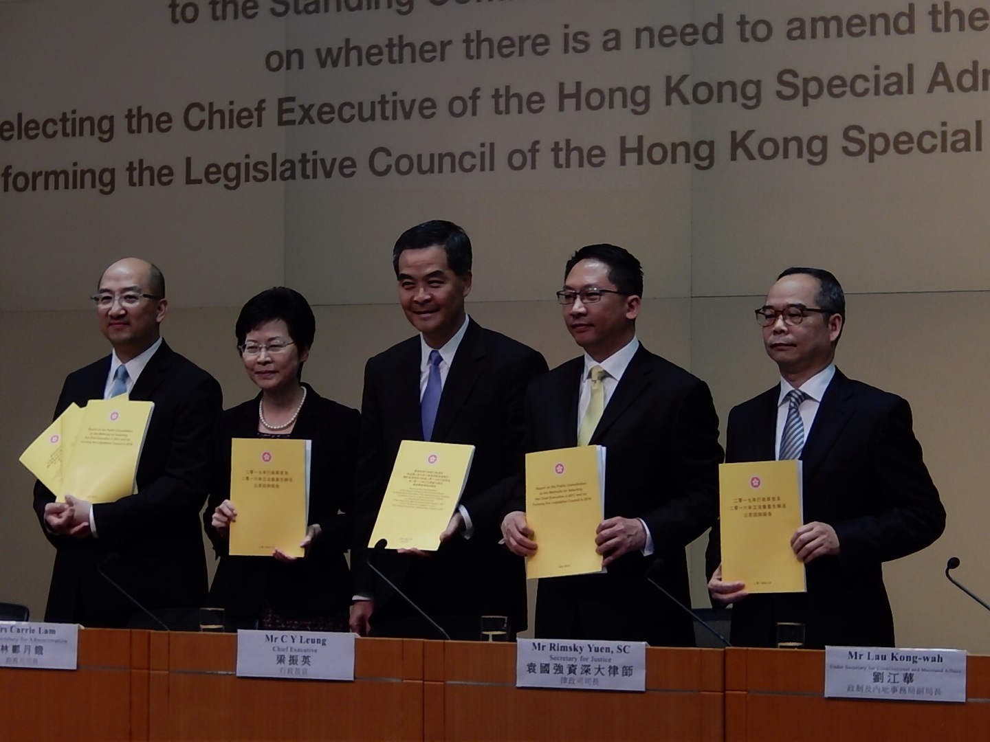 The Government of Hong Kong releasing the first consultation report for the 2014 electoral reform.中文（香港）: 香港特首梁振英宣布向中國全國人大常委會提出政改報告，正式啟動政改五步曲的第一步。